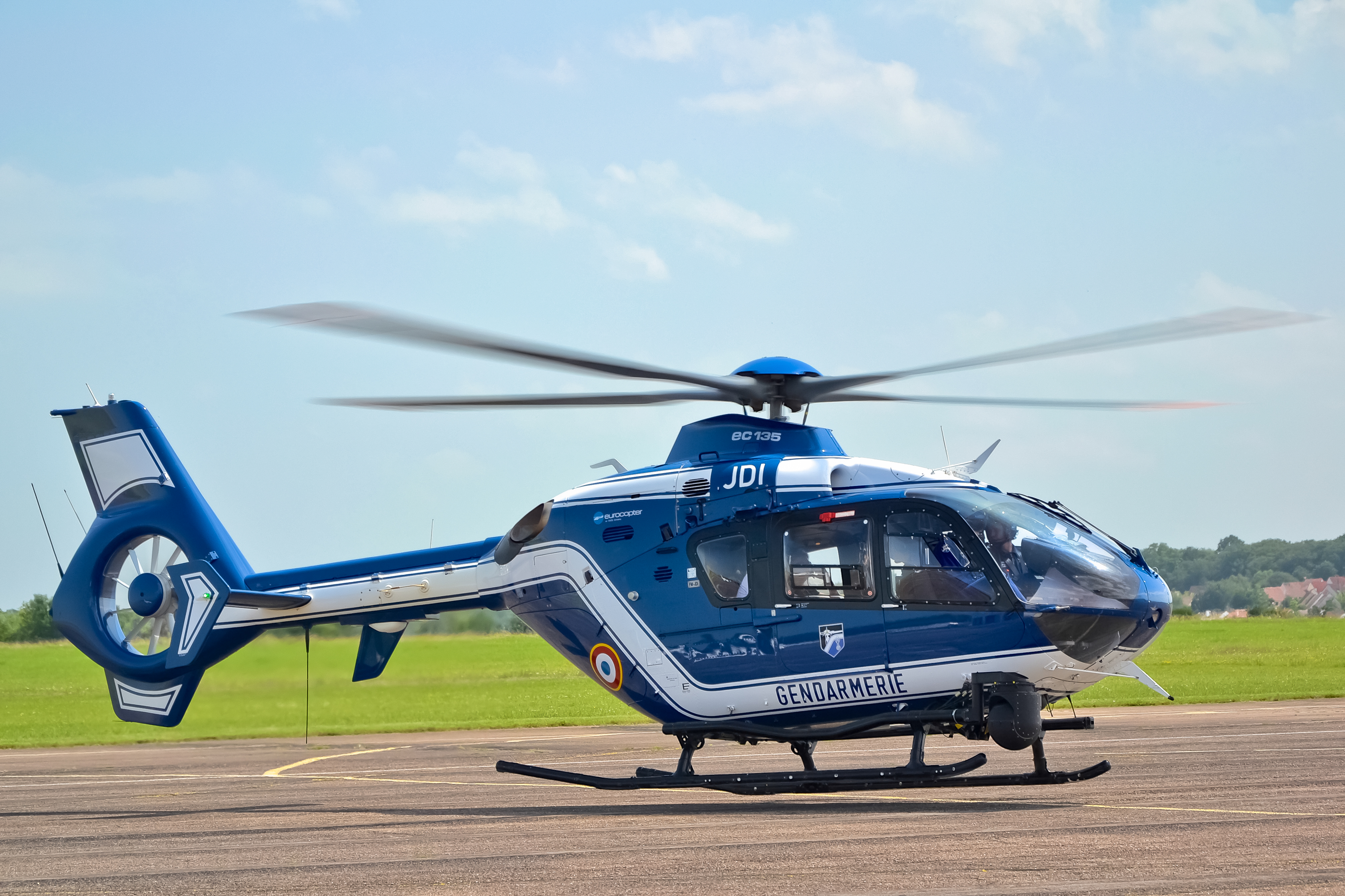 France - Gendarmerie F-MJDI (cn 0797) Nancy - Essey (ENC / LFSN)